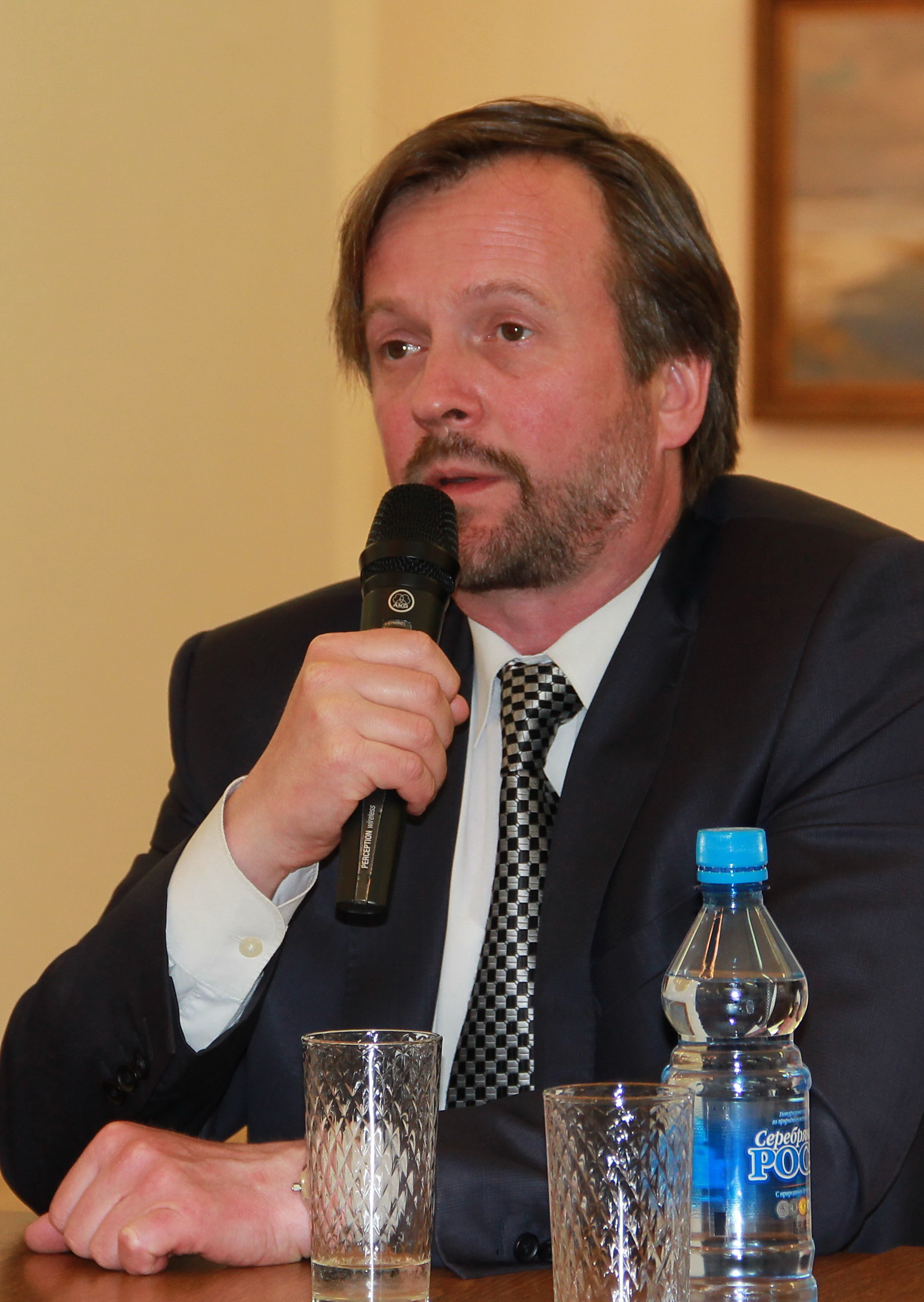 Russia, Vologda, Dmitry Belyukin — People's Artist of the Russian Federation at a press conference in Vologda Regional Art Gallery